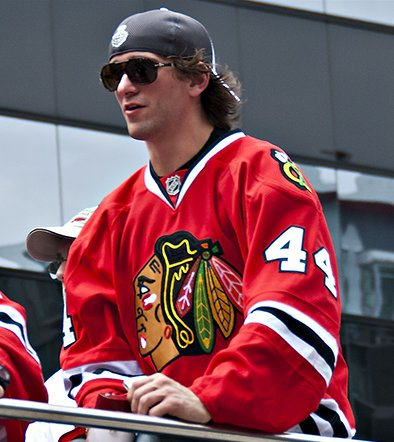 44 Danny Richmond, Stanley Cup Victory parade 2010